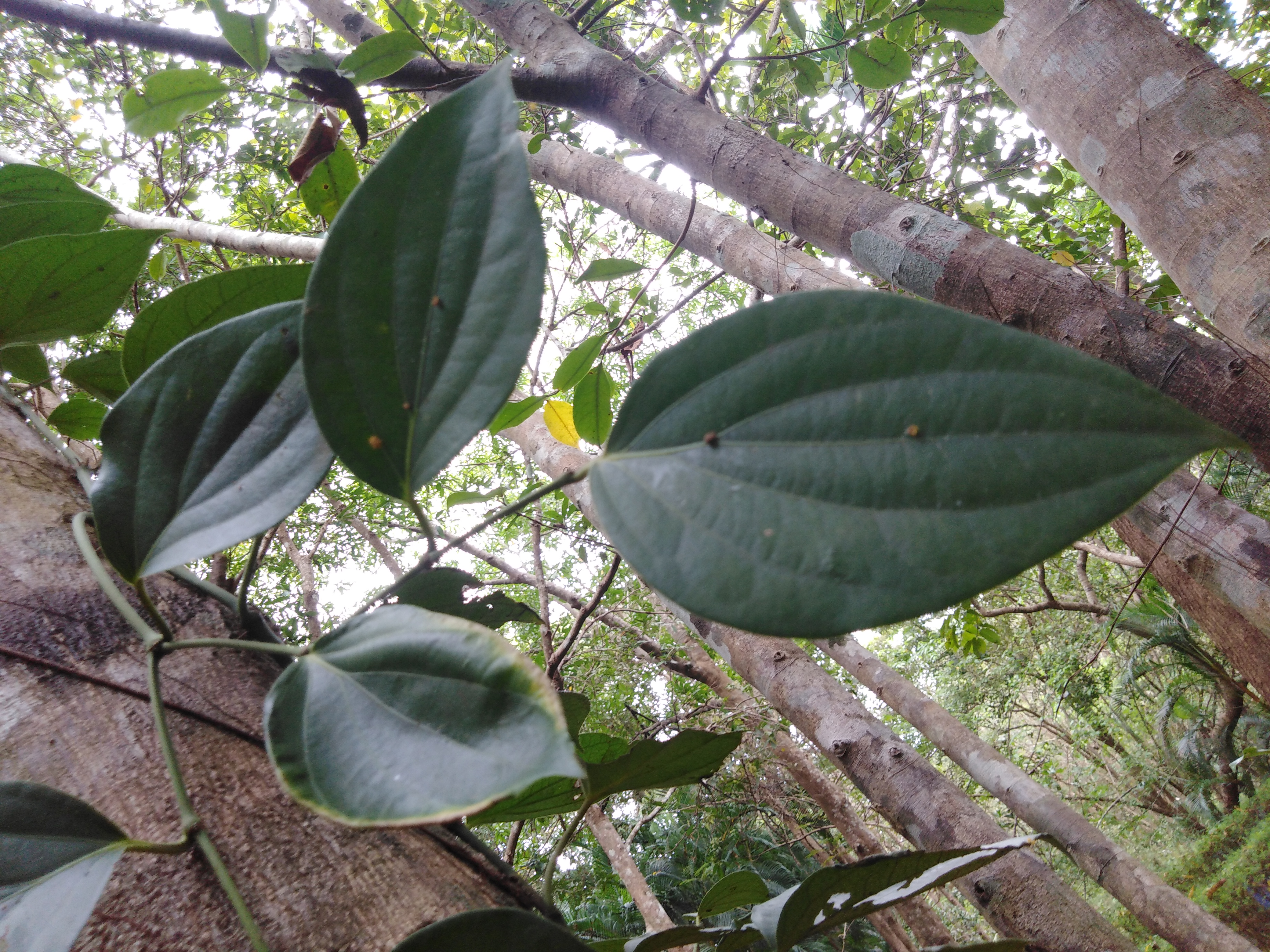 this photo of basari taken from shobhavana at mijar